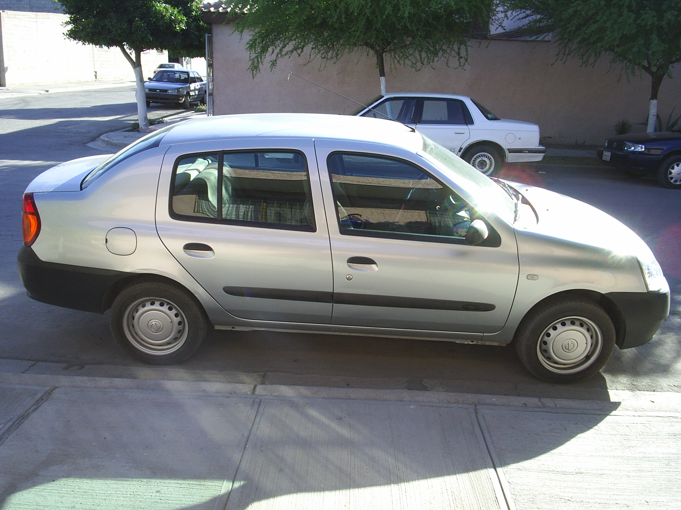 Nissan Platina/Renault Clio photographed in Torreón, Mexico.